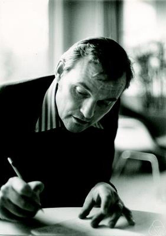 Christoph Witzgall, Oberwolfach 1972